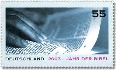 Stamp from Deutsche Post AG from 2003, Year of the Bible